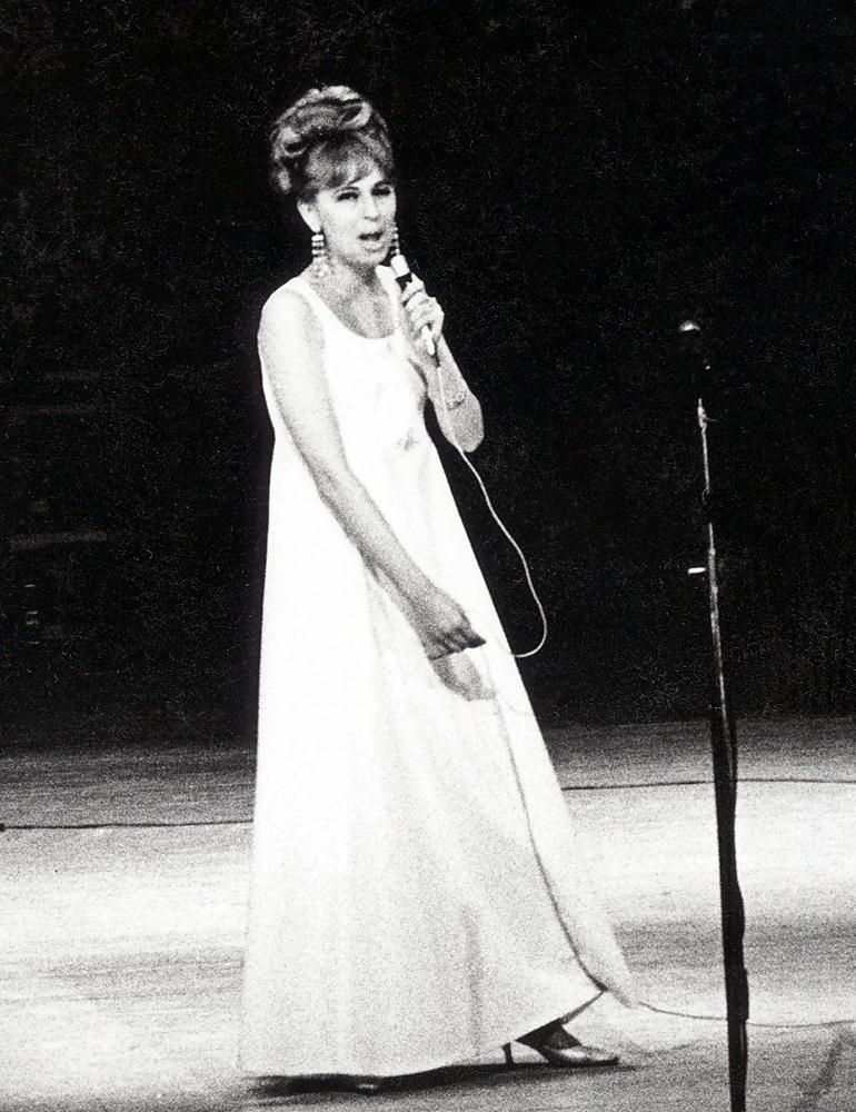 Swedish singer Mia Adolphson as "Lolly" in Peccoral, as released by image owner Lars Jacob ProdPlace: Tibble Teater, Attundavägen 1, Täby, Sweden